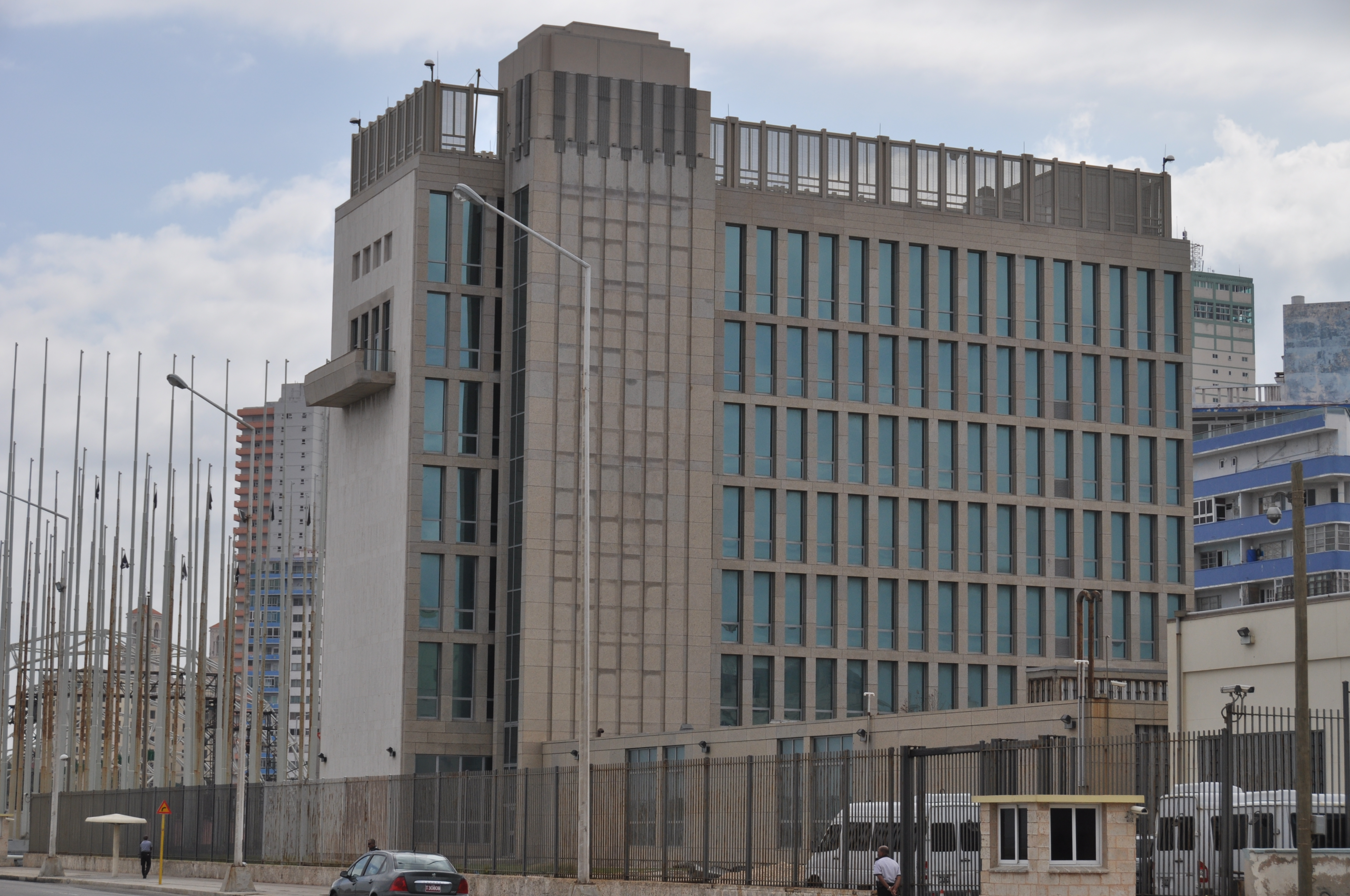 United States Embassy in Havana (former U.S. Interests Section of the Swiss Embassy in Havana)